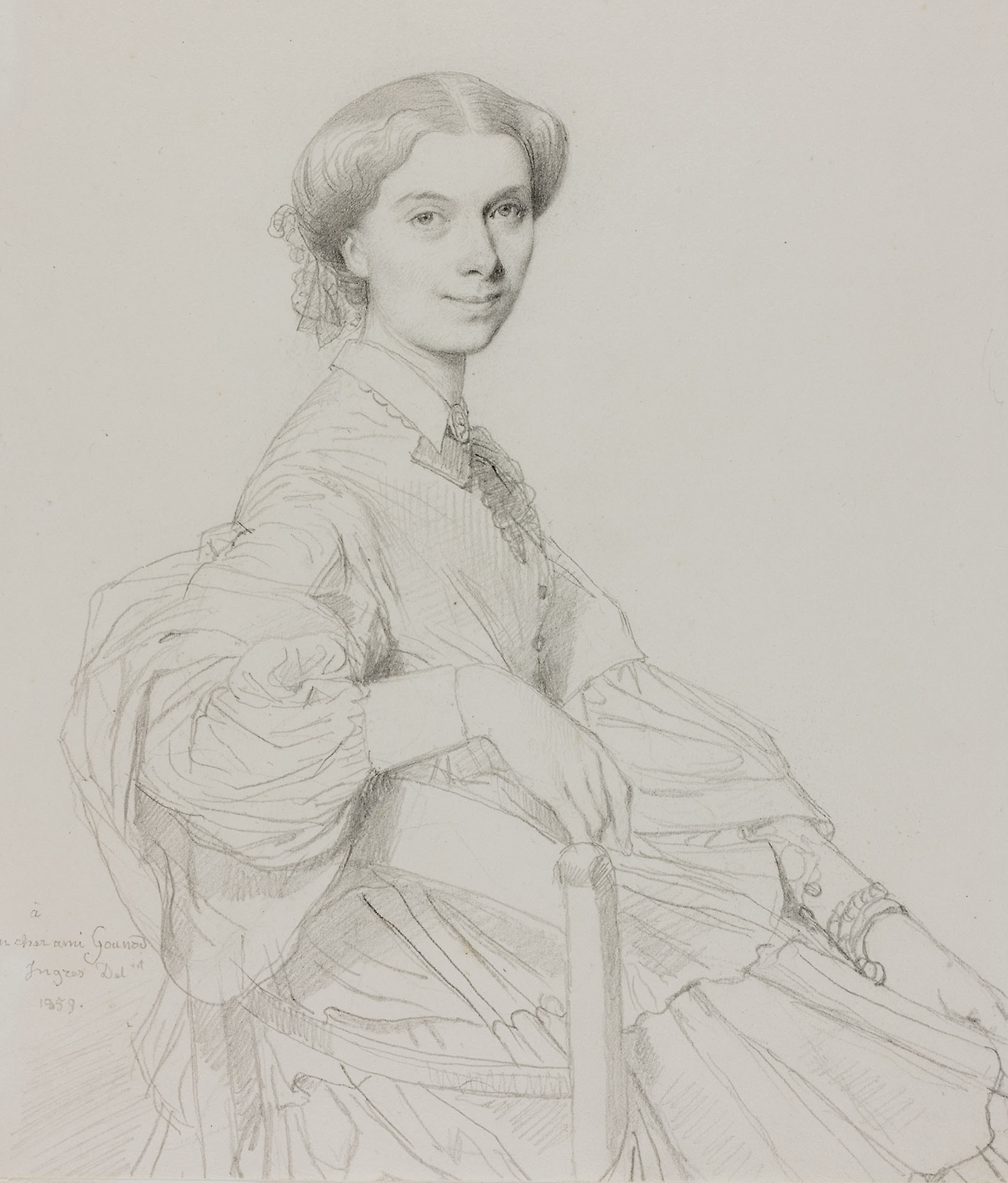 Anna, née Zimmermann, wife of Charles Gounod